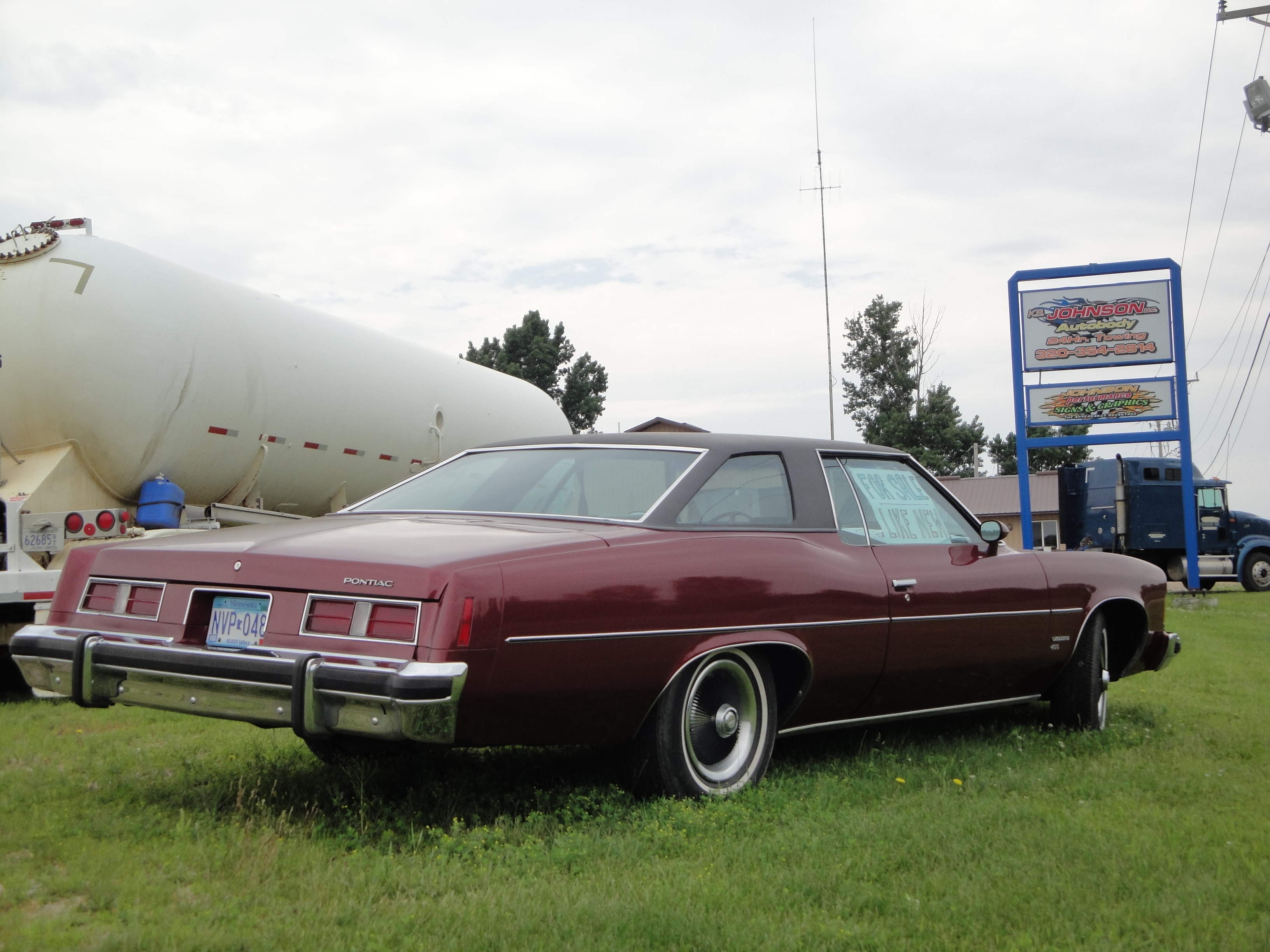 New London, Minnesota